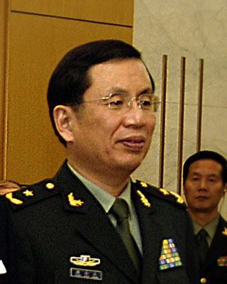 Xu Caihou (徐才厚), Chinese Vice Chairman of the Central Military Commission